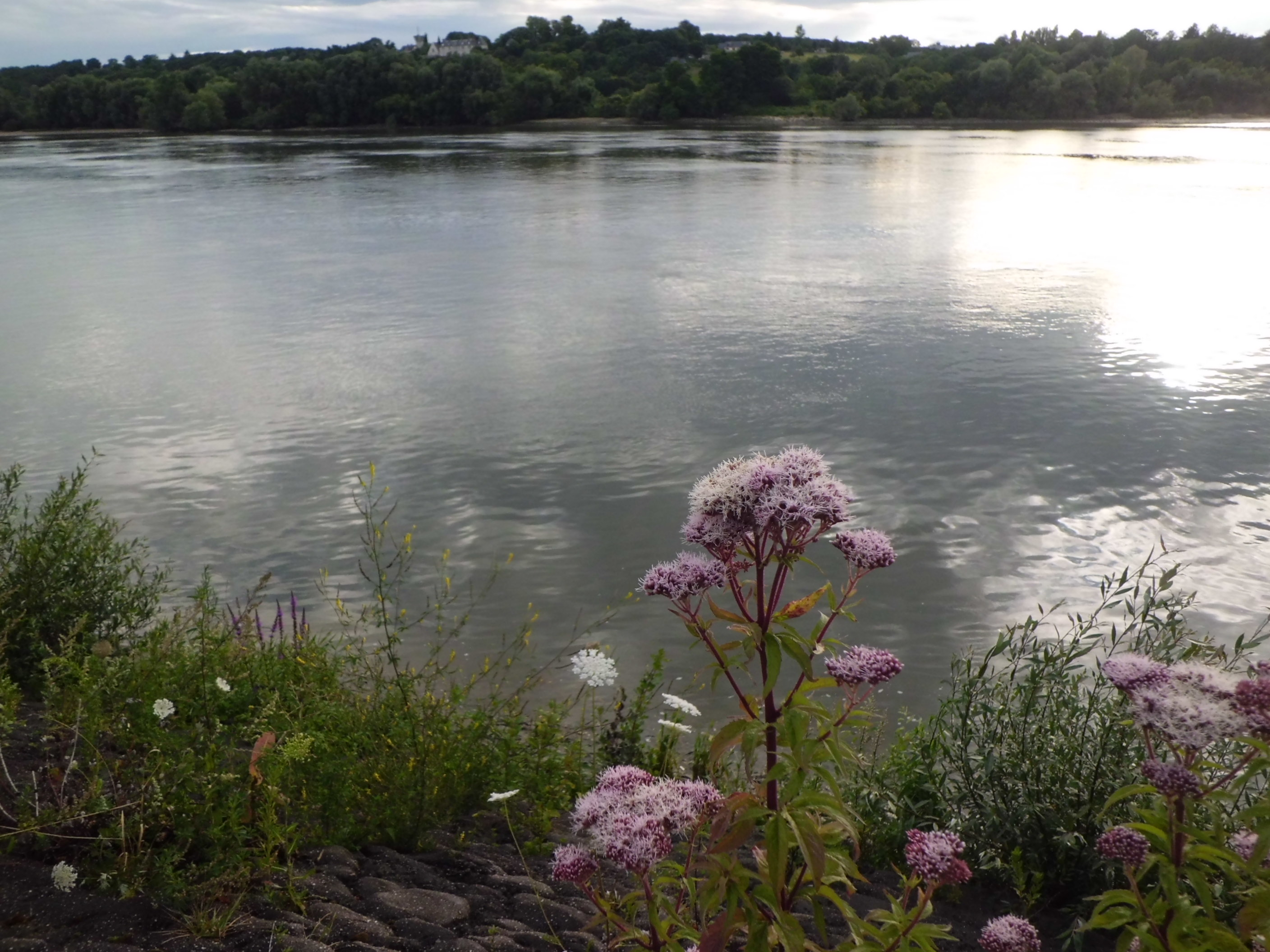 The River Seine from the right bank at Saint-Martin de Boscherville, Normandy